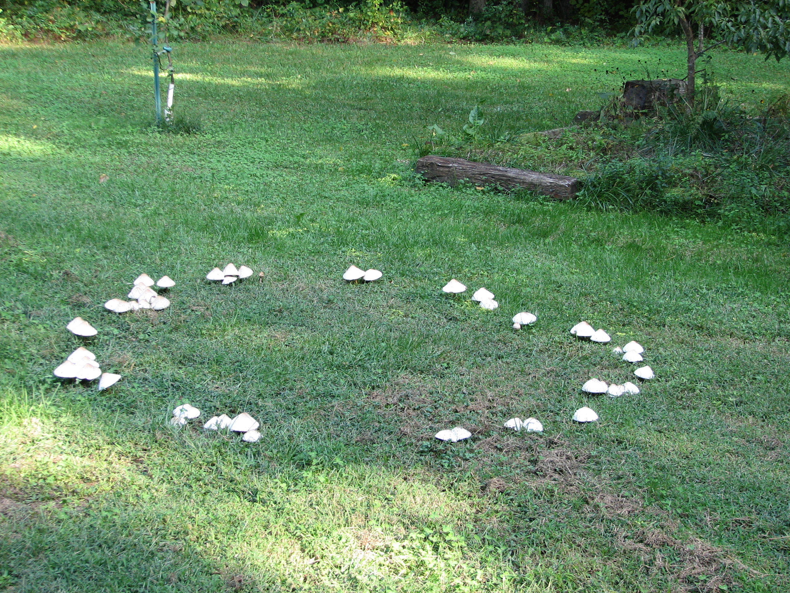 Mushrooms. A fairy ring in a lawn. Measures 7 feet in diameter.